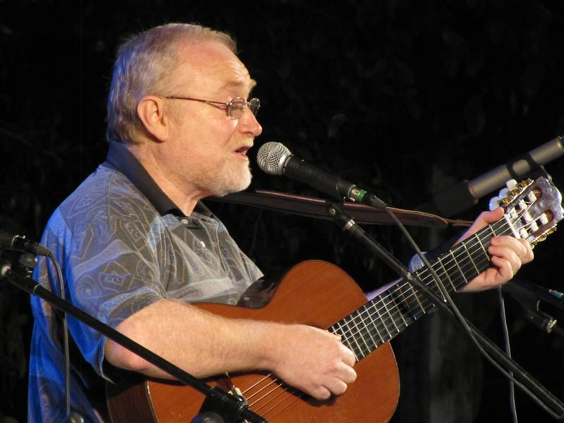 Александр Аркадьевич Медведенко (Дов) на фестивале Сахновка, 6 мая 2011 (Израиль). Фото сделано Алексеем Уклеиным.